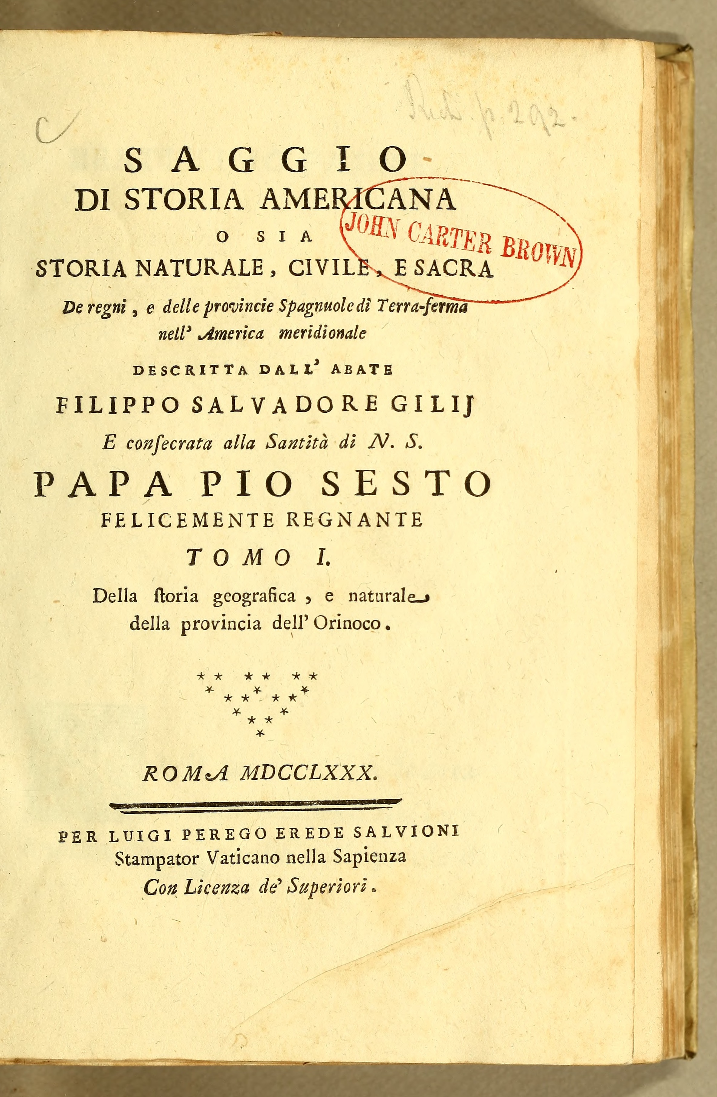 Title page of Filippo Salvatore Gilii's Saggio di storia americana o Sia storia naturale, civile, e sacra de regni, e delle provincie spagnuole di terra-ferma nell'America meridionale (Rome, 1780)